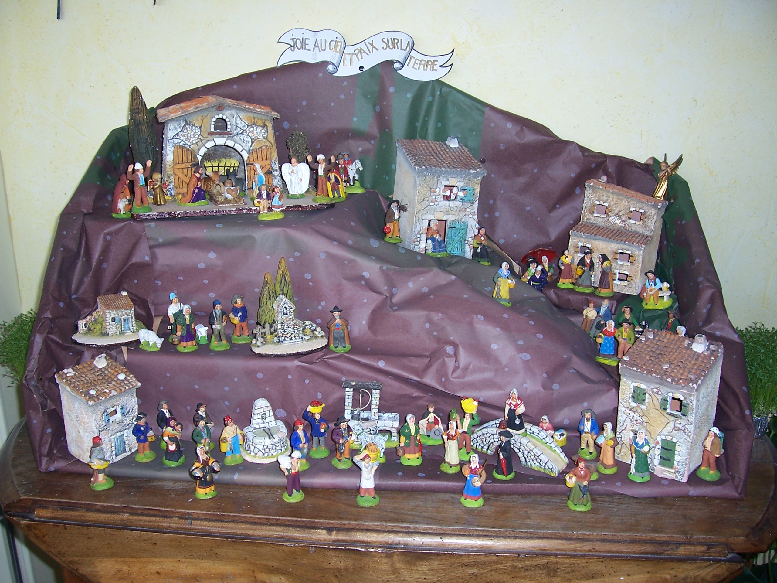 provencal santons for Christmas